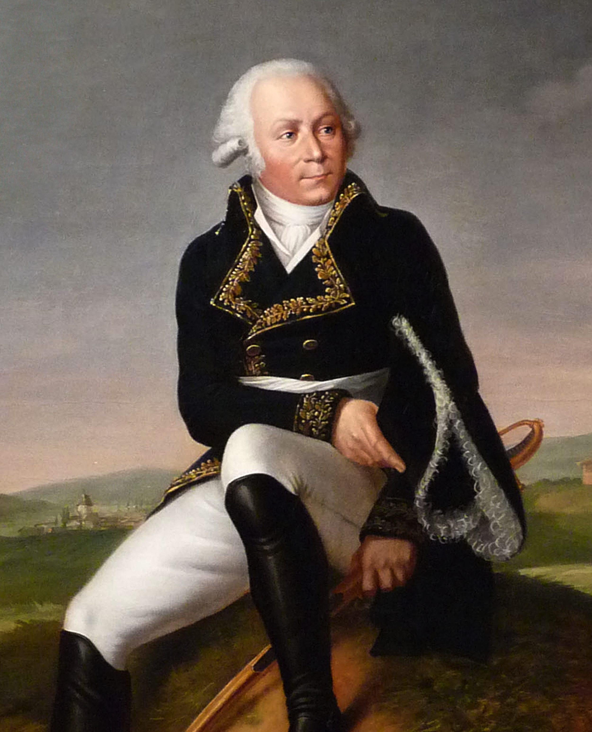 General François Christophe Kellermann, by Lucile Foullon-Vachot (1775-1865) after a painting by Maritnet engraved by Charon. Oil on canvas. On display at Strasbourg Historical museum, accession number MBA 1770 (Cropped).